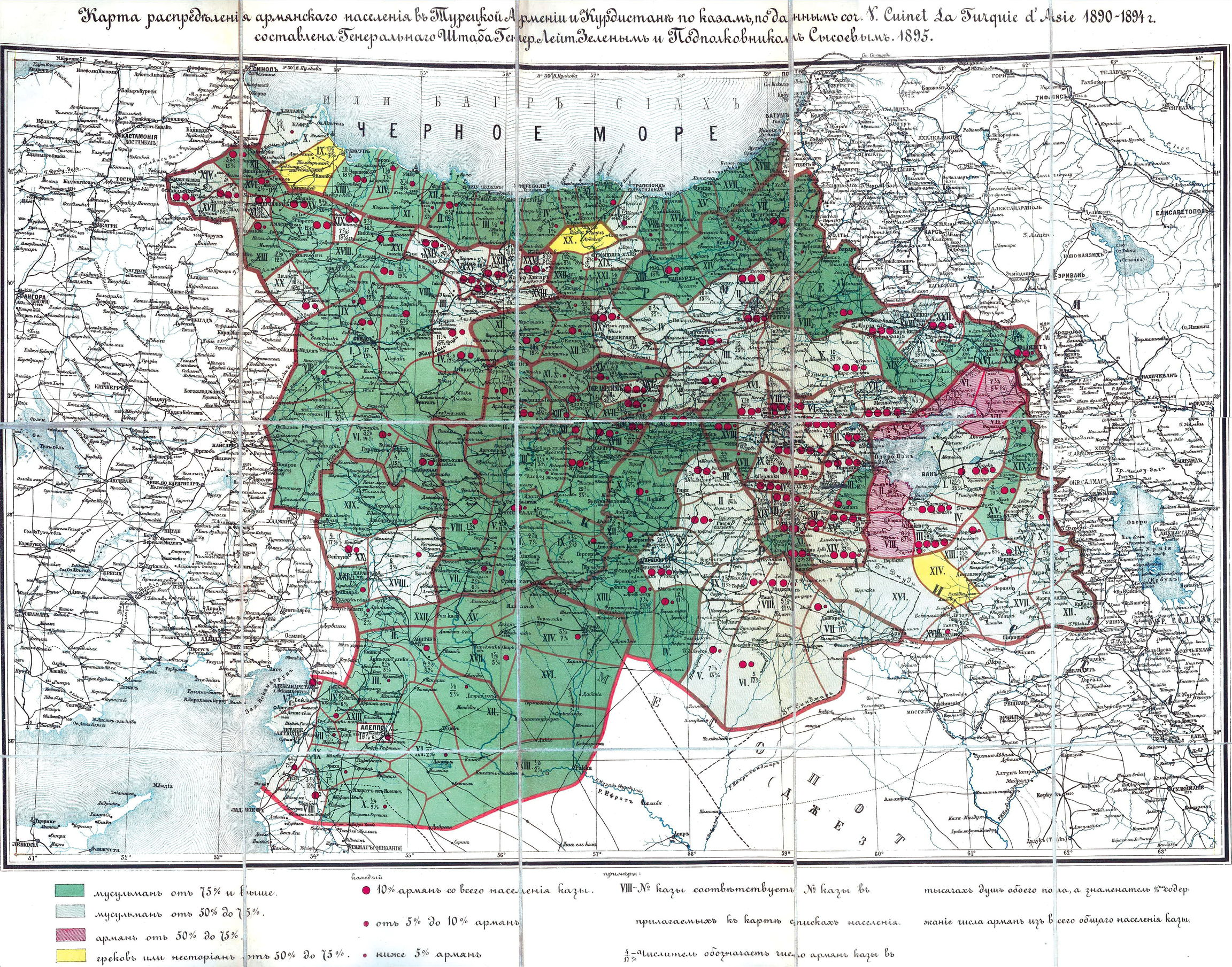 Map of the distribution of the Armenian (also other Christian) and Muslim population in Turkish (Western) Armenia and neighboring regions of Ottoman empire in 1895. Map is created by general-lieutenant Zelyoniy and colonel Sysoev of the military headquarter of the Russian imperial army in 1895. This map is based on the work of V. Cuinet "La Turquie d'Asie 1890-1894". more than %75 Muslim population %50 - %75 Muslim population %50 - %75 Armenian population %50 - %75 Greek and Nestoriyan population